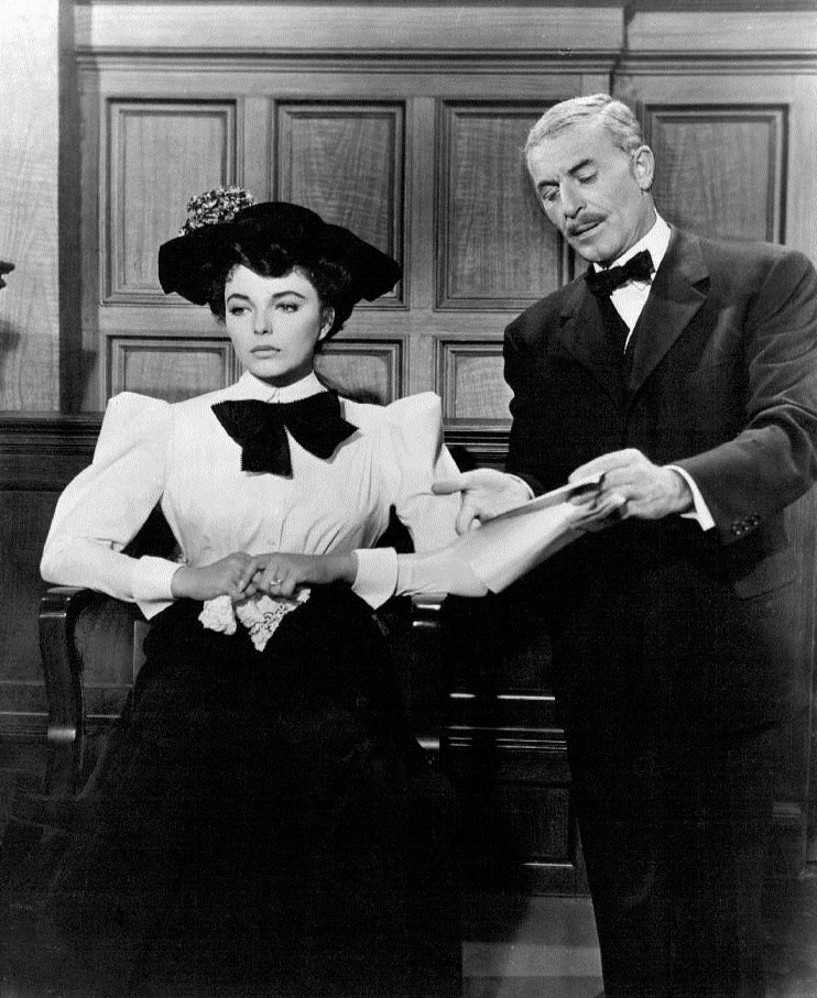 Photo of Joan Collins as Evelyn Nesbit Thaw and John Hoyt as District Attorney William Travers Jerome from the 1955 film The Girl in the Red Velvet Swing.